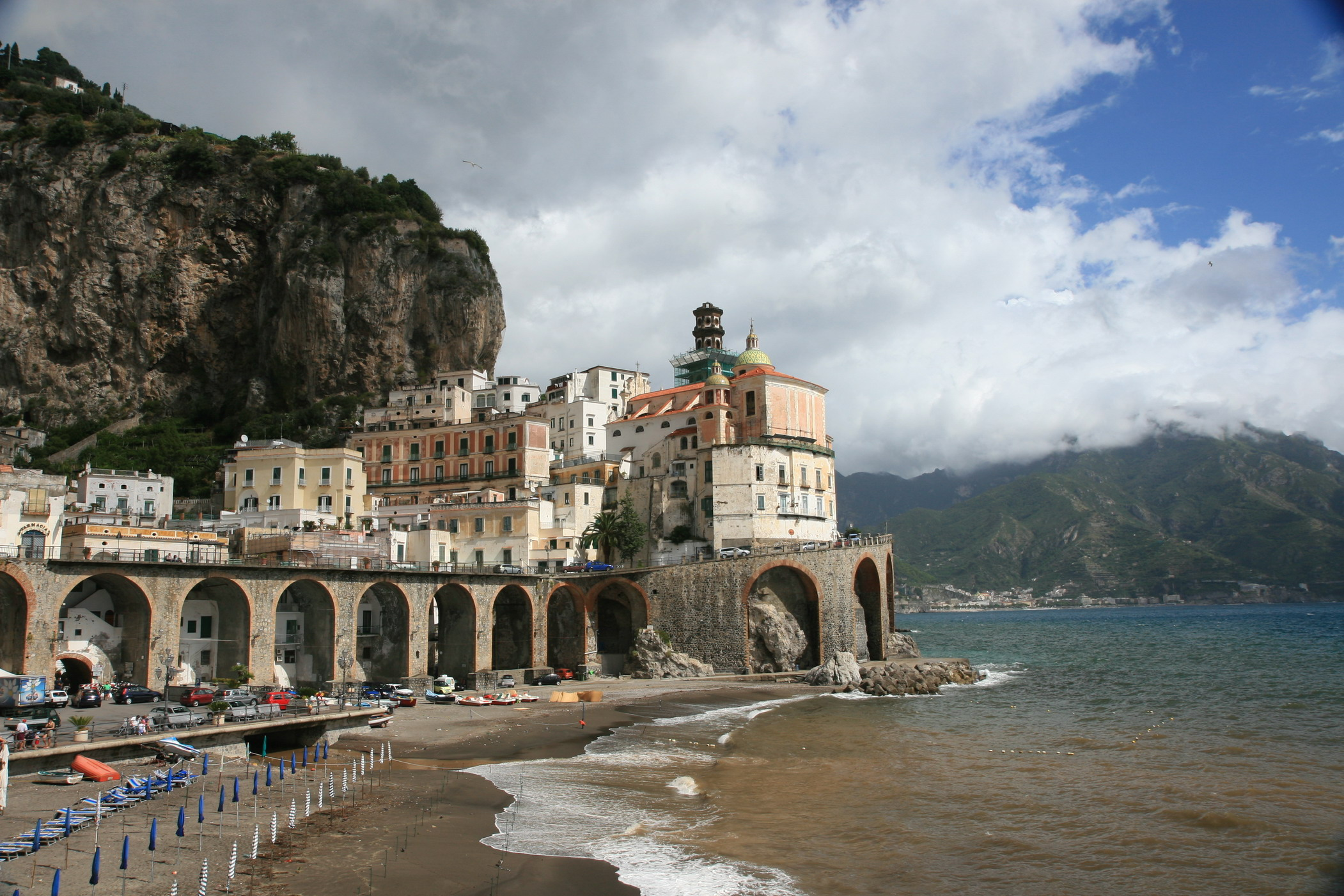 Atrani on the Amalfi Coast - the smallest town in Southern Italy and 2nd smallest in Italy after Fiera di Primiero.